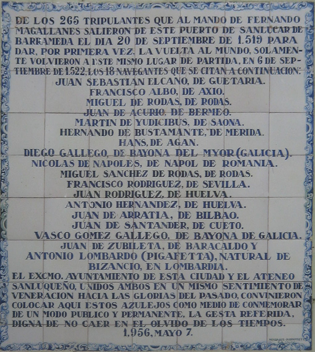 Ceramic in Sanlucar de Barrameda, conmemorating the first world circumnavigation (1519-1522)